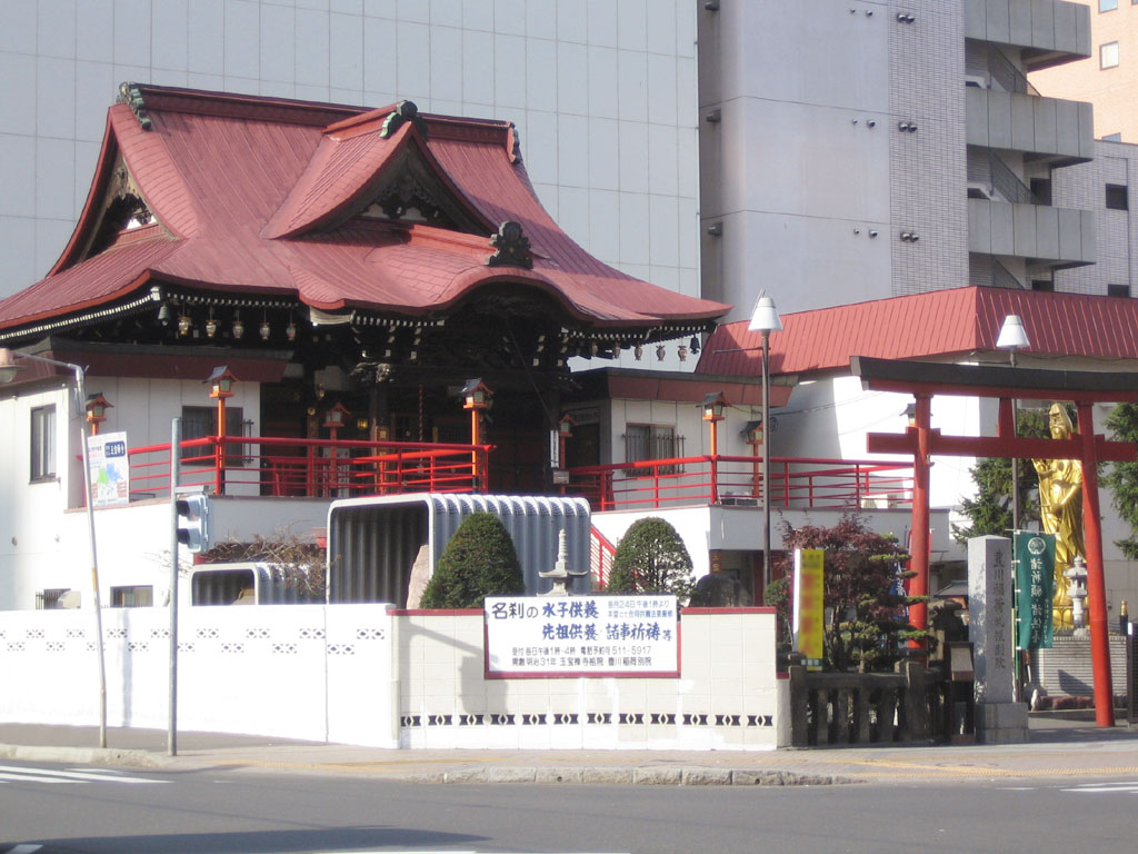 Branch of Toyokawa Inari in Sapporo (豊川稲荷札幌別院 Toyokawa Inari Sapporo Betsuin ), Sapporo, Hokkaidō, Japan